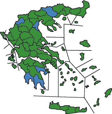 Greek legislative election, 2009 results, data from in.gr.